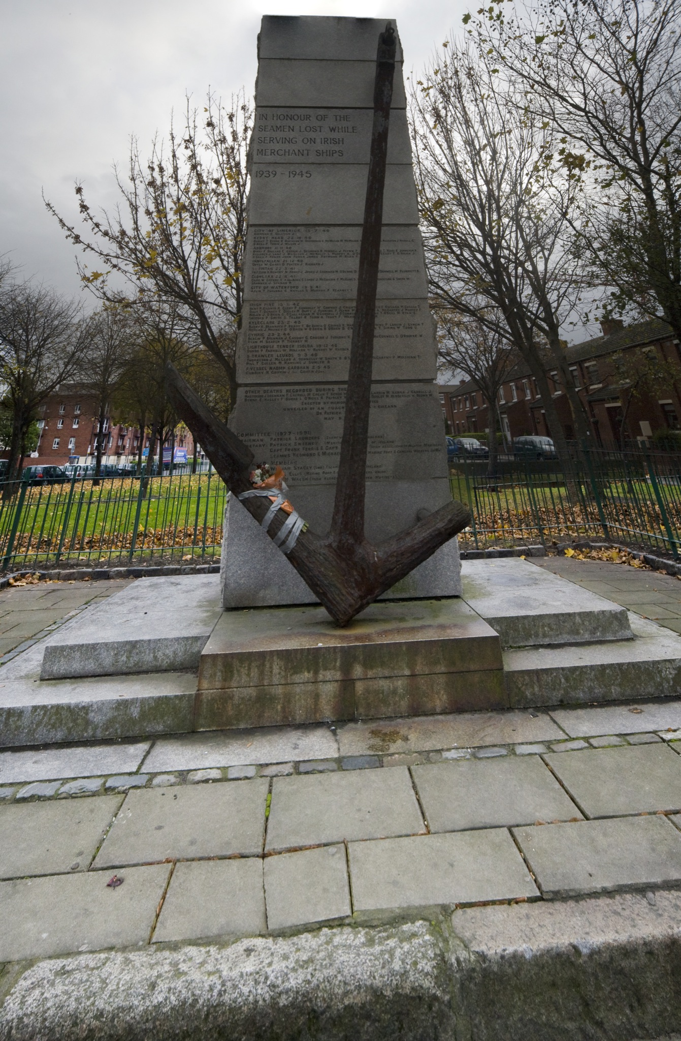 IRISH MERCHANT SHIPS LOST IN WORLD WAR TWO. MUNSTER (Captain William James Paisley) mined and sunk in Liverpool Bay 2 February 1940-no casualties CITY OF LIMERICK (Captain, R. Ferguson) sunk by air attack 700 miles west of Ushant. 15 july 1940-2 dead MEATH (Captain T. MacFarlane) mined and sunk off Holyhead . 16 august 1940-1 dead LUIMNEACH (Captain E. Jones) sunk by gunfire from U-46 in Bay of Biscay 4 september 1940-no casualites KERRY HEAD (Captain C. Drummond) bombed and sunk with all hands off Cape Clear. 22 october 1940-12 dead ARDMORE (Captain T. Ford) missing on passage Cork to Fishguard. 11 november 1940-24 dead ISOLDA (Captain A. Bestic) bombed and sunk by German aircraft off Wex ford Coast 19 december 1940- 6 dead, 7 wounded INNISFALLEN (Captain G. Rrth) mined and sunk in River Mersey. 21 december 1940-4 dead ST. FINTAN (Captain N. Hendry) bombed and sunk by German aircraft of Welsh Coast. 22 march 1941-9 dead CLONLARA (Captain J. Reynolds) torpedoed and sunk whilst in convoy 0G71 in Bay of Biscay 22 august 1941-11 dead CITY OF WATERFORD (Captain T. Alpin) sunk whilst in convoy 0G74 in North Atlantic. 19 september 1941-5 dead CITY OF BREMEN (Captain G. Bryan) sunk by German aircraft in Bay of Biscay 2 june 1942-no casualites IRISH PINE (Captain M. O'Neill) torpedoed and sunk in North Atlantic by U-608. 15 november1942-33 dead KYLECLARE (Captain A. Hamilton) torpedoed and sunk in Bay of Biscay by J-456 23 february 1943-18 dead IRISH OAK (Capatin E. Jones) torpedoed and sunk in North Atlantic by U607 15 may 1942-no casualites CYMRIC (Captain C. CASSEDY) missing on passage Ardrossan to Lisbon. 22 march 1944-11 dead